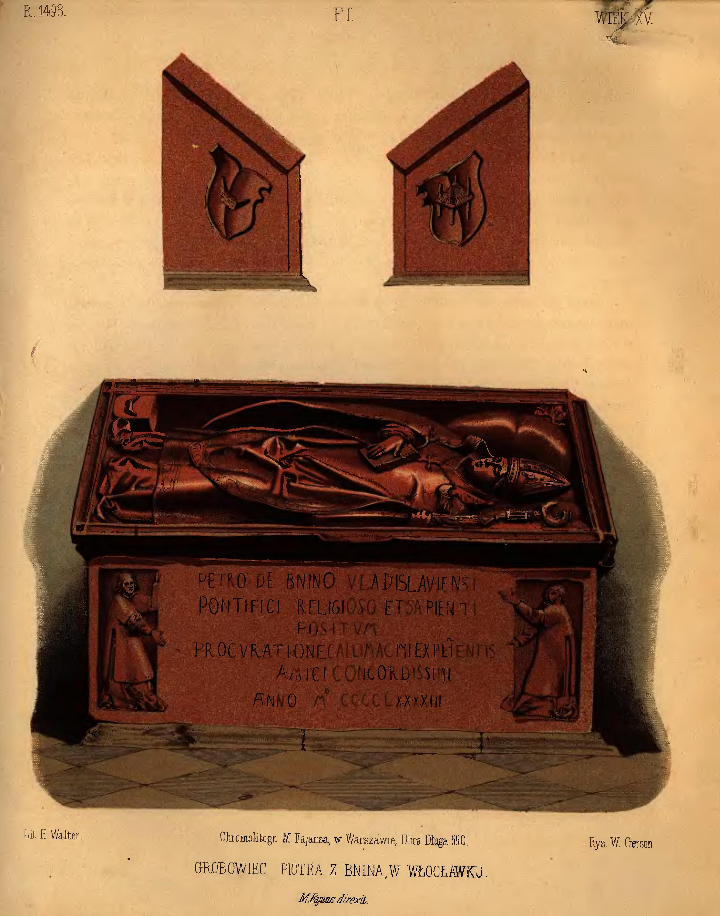 Tomb of Piotr z Bnina, Włocławek cathedral. By Veit Stoss